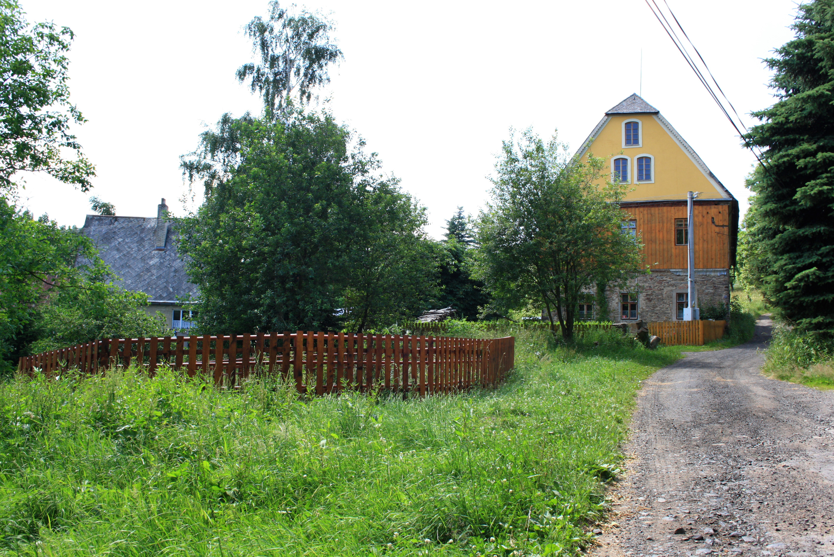 Bečov, part of Blatno, Czech Republic